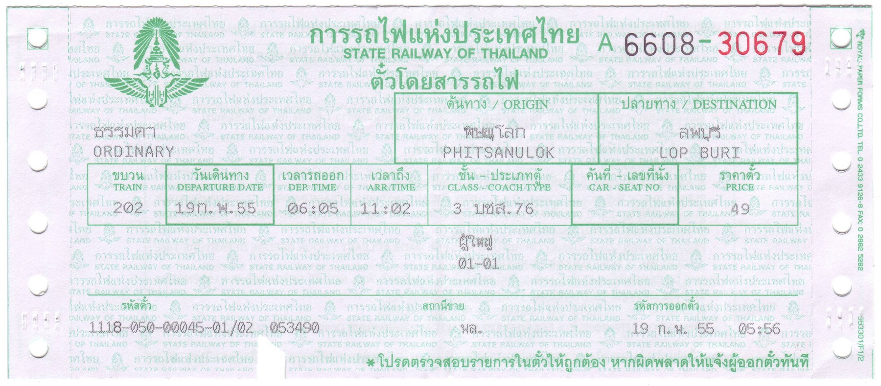 Thailand train ticket